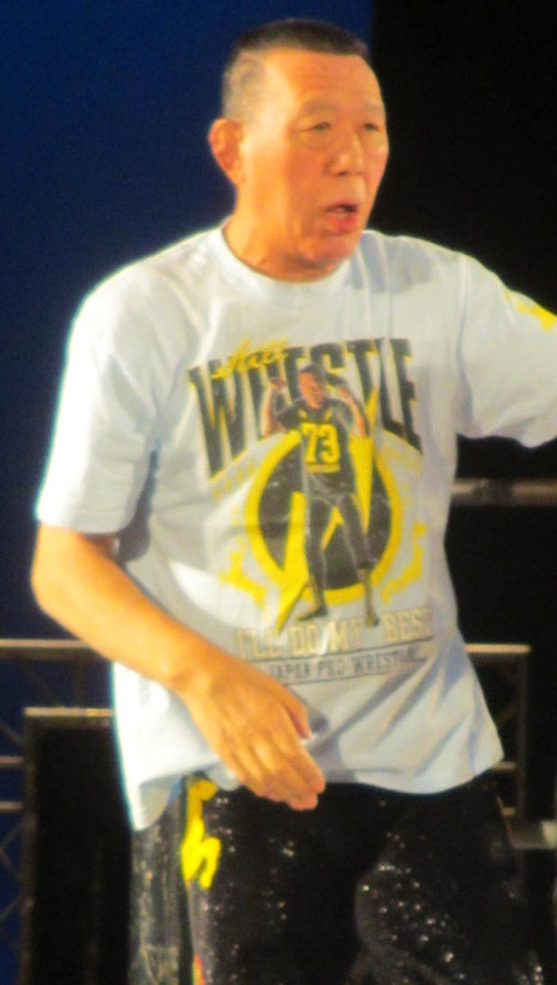 Japanese professional wrestler,Great Kojika. Dec 20 2015, BJW Yokohama Cultural Gymnasium.